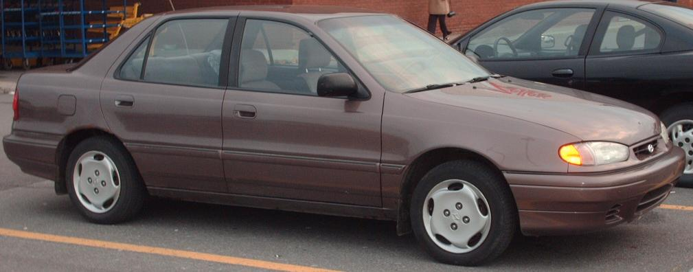 1994-1995 Hyundai Elantra photographed in Montreal, Quebec, Canada.